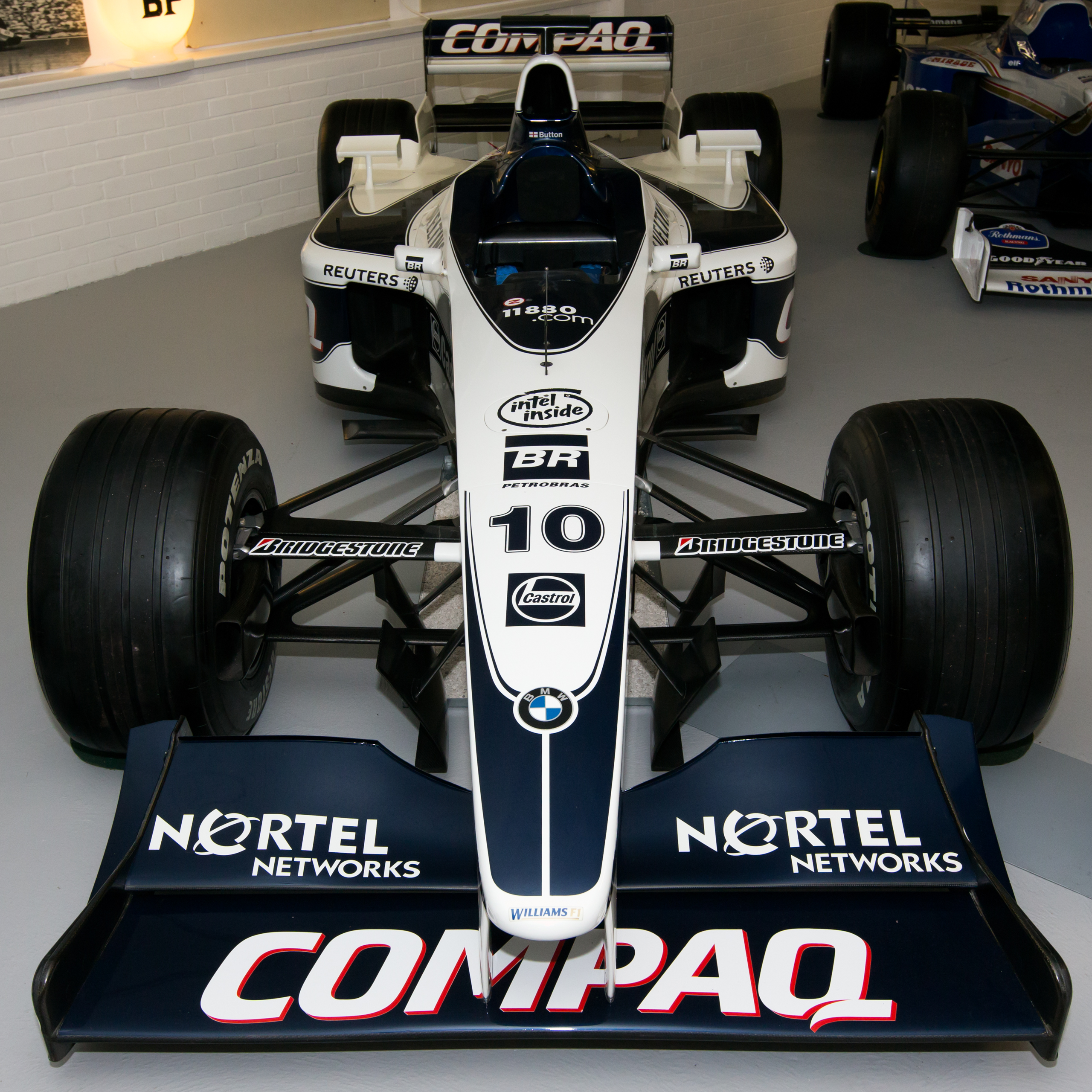 2000 Williams FW22 (#10 Jenson Button)